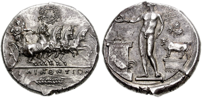 Sicily, Selinus. Circa 455-409 BC. (Struck circa 417 or 413 BC) AR Tetradrachm (27mm, 17.20 g, 12h). [S]ELINONTION, Nike, holding reins in left hand, in galloping quadriga right; laurel wreath above, grain ear in exergue River god Selinos, nude, standing facing, head left, holding in right hand a phiale over lighted altar, cradling in left arm a filleted palm branch; to left, rooster standing left before altar; to right, selinon leaf above bull standing left on basis.